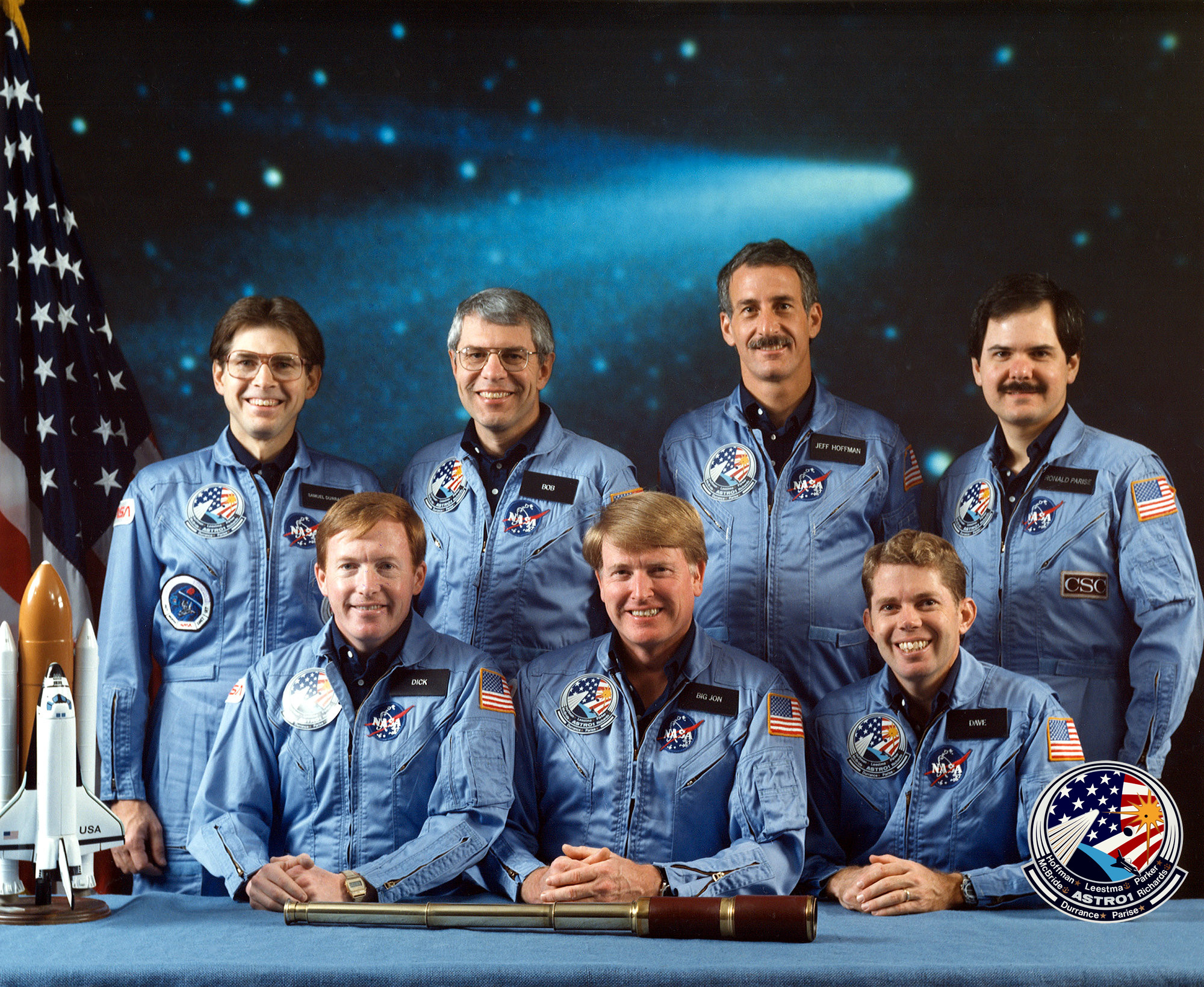 The crew for STS-61-E, which was cancelled after the loss of Space Shuttle Challenger. Jon A. McBride (commander), Richard N. Richards (pilot), David C. Leestma, Robert A.R. Parker, Jeffrey A. Hoffman (all mission specialist), Ronald A. Paris and Samuel T. Durrance (both Astro-1 payload specialists).